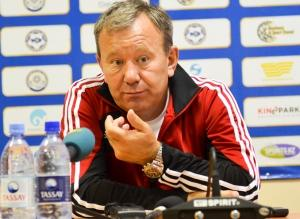 Trener Fc Aktobe